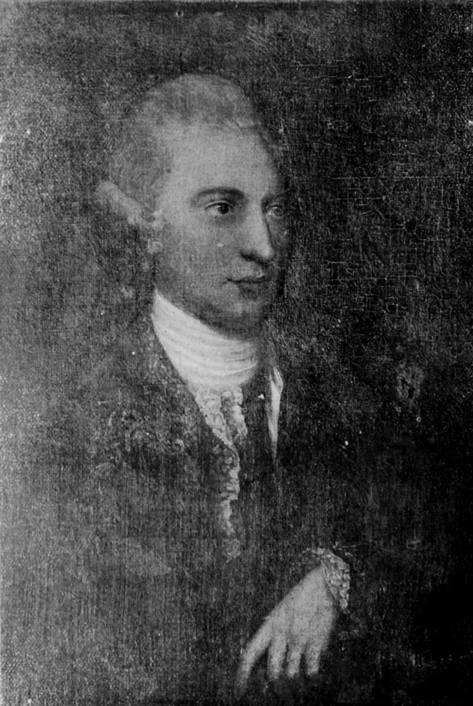 An image of a portrait of Sir Alexander Macdonald of Sleat, 7th Baronet (d.1746). Today he is considered to be a chief of Clan Macdonald of Sleat. The image appears to be a painting.